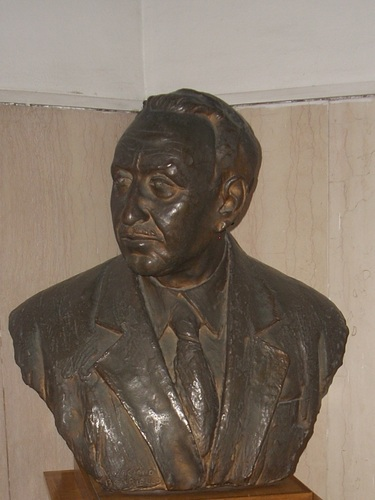 This bronze bust of Aldo Turchetti can be found in a small hallway leading to the beautiful entrance hall of the "Clinica medica" building of the Policlinico Umberto I in Rome (Viale del Policlinico, 155). The bust is placed on a wooden pedestal bearing the name of the physician. In the same room there are also the busts of Vittorio Ascoli, Luigi Condorelli and Cesare Frugoni.